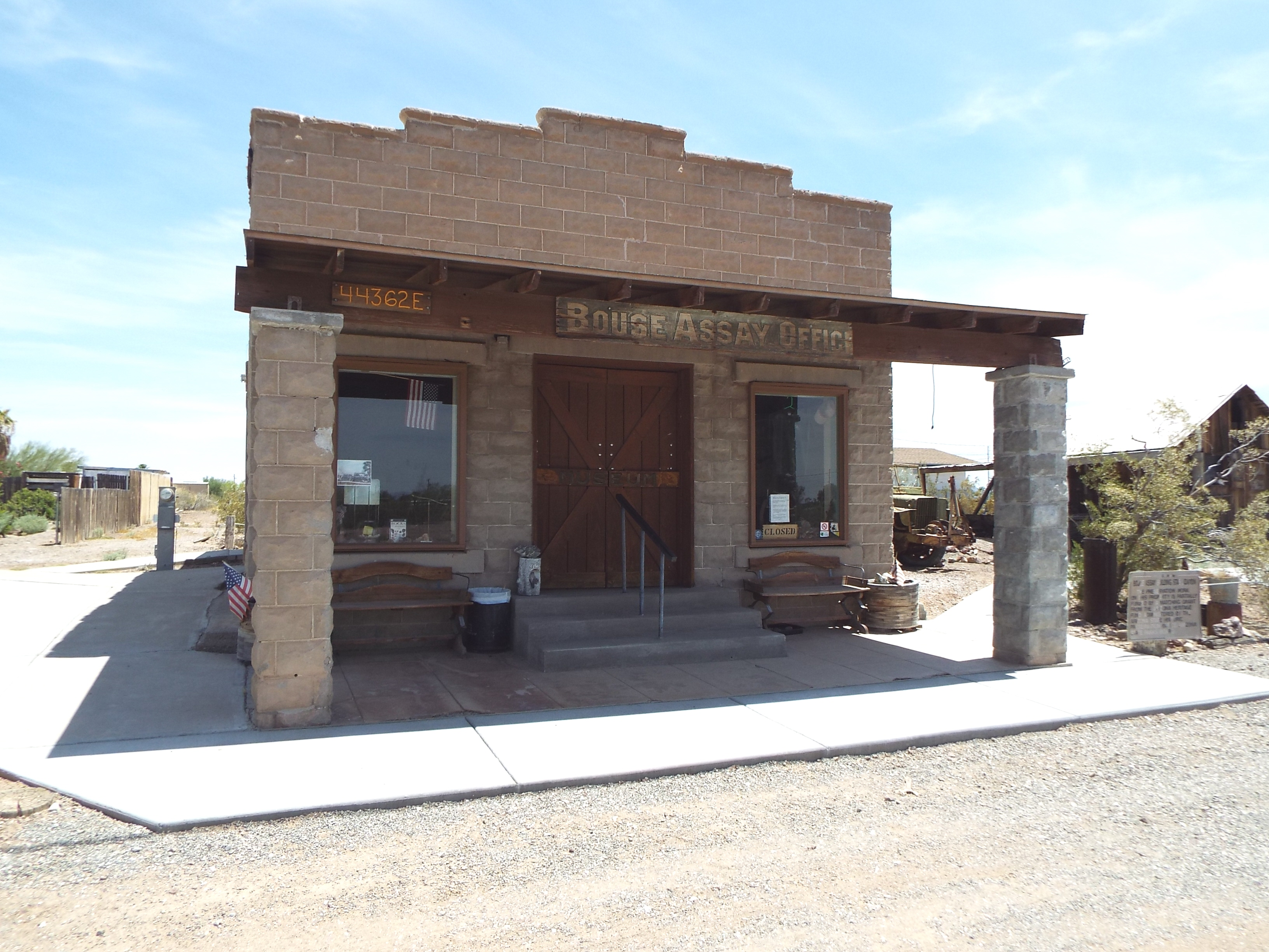 1902 Assay building which now houses the Bouse Chamber of Commerce in Bouse, Az.